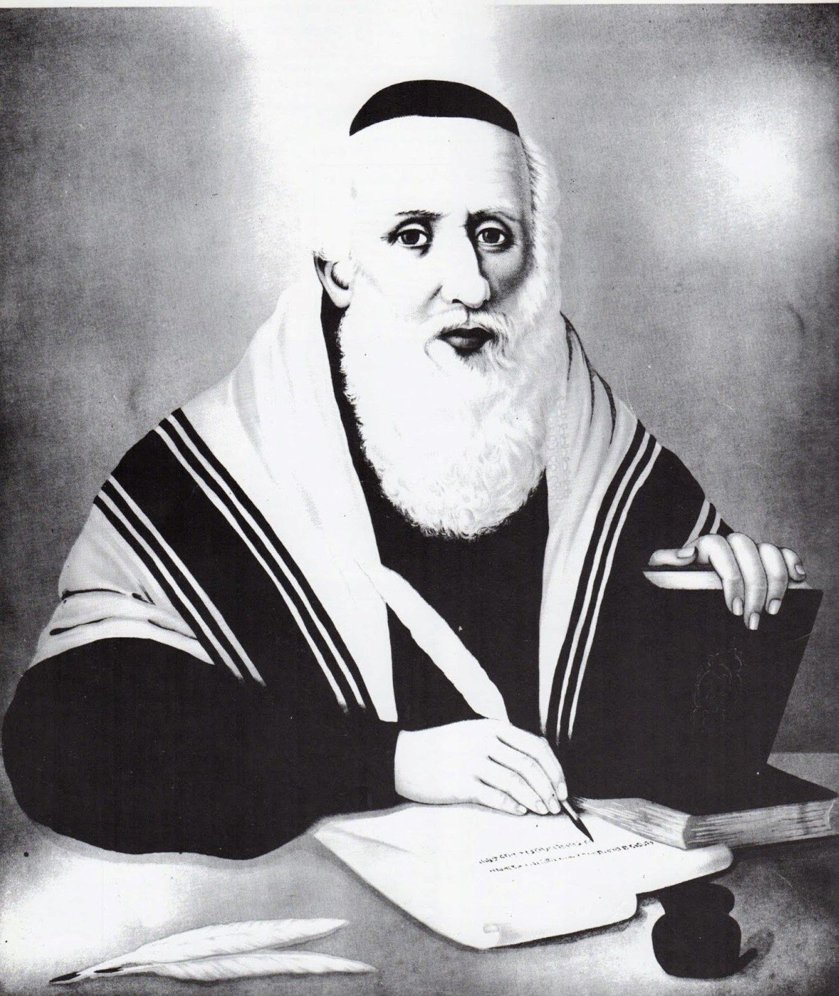 Vilna Gaon, portrait painting, originally in colour (see [1])